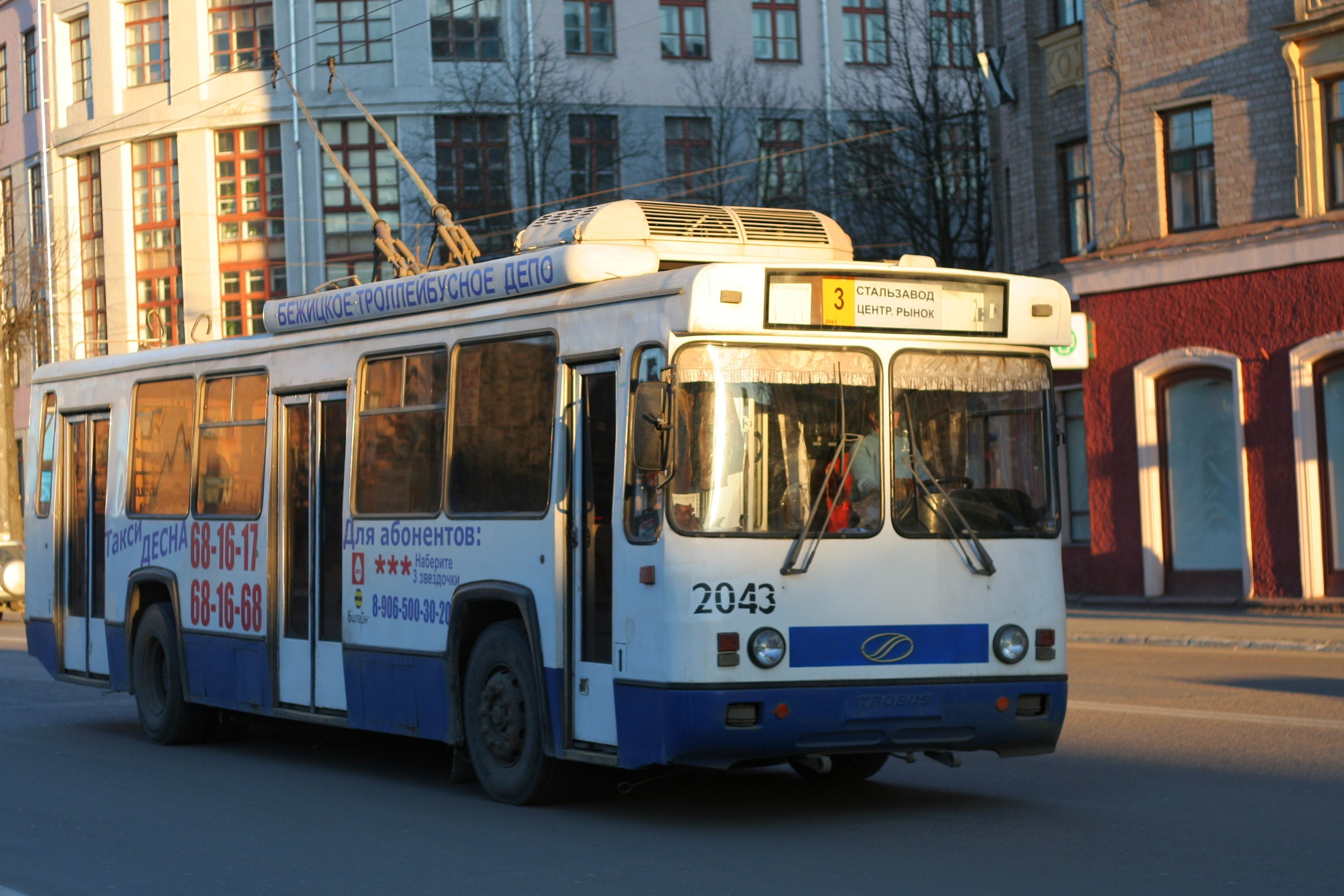 Trolleybus of model BTZ-5276-04 in Bryansk